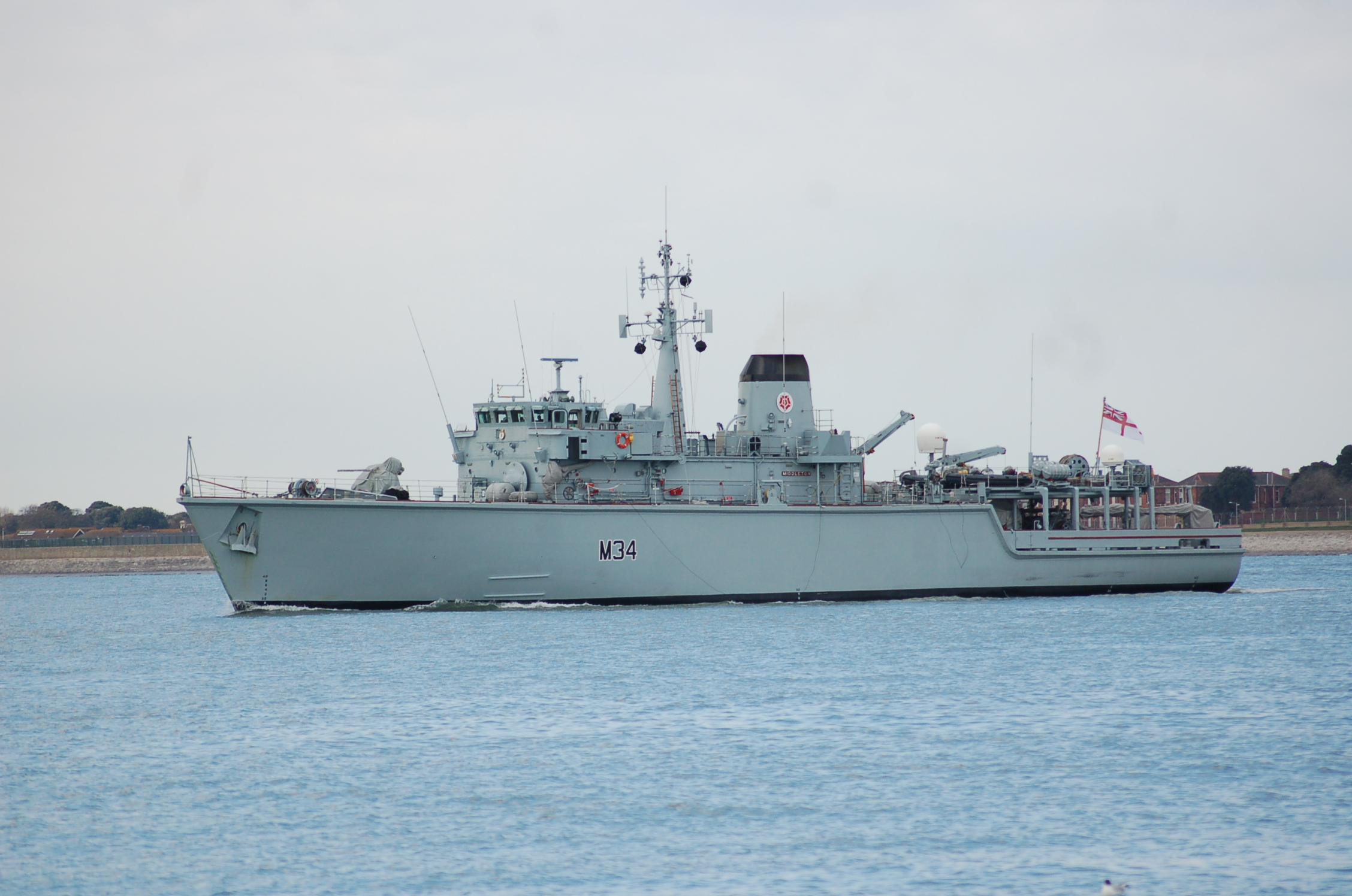 HMS Middleton is a Hunt-class mine countermeasure vessel (MCMV) of the British Royal Navy based in Portsmouth.